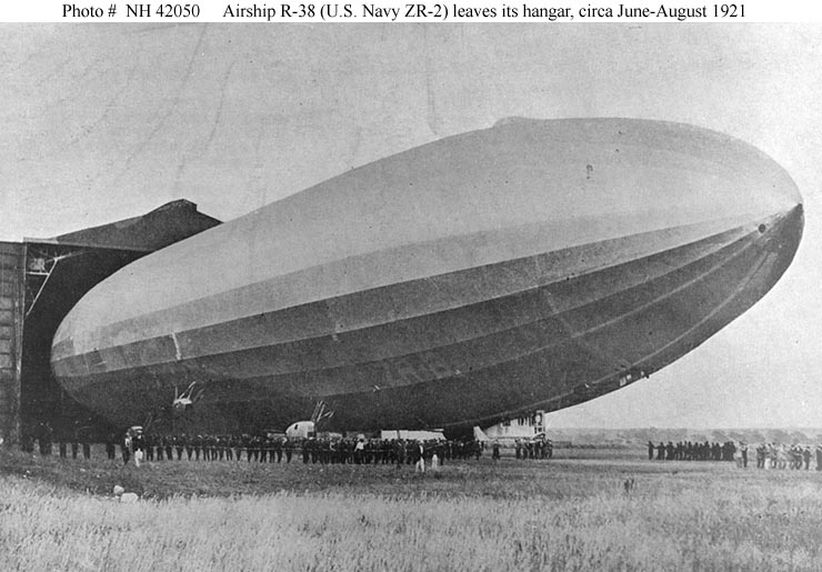 Airship R-38/ZR-2 leaving its hanger.